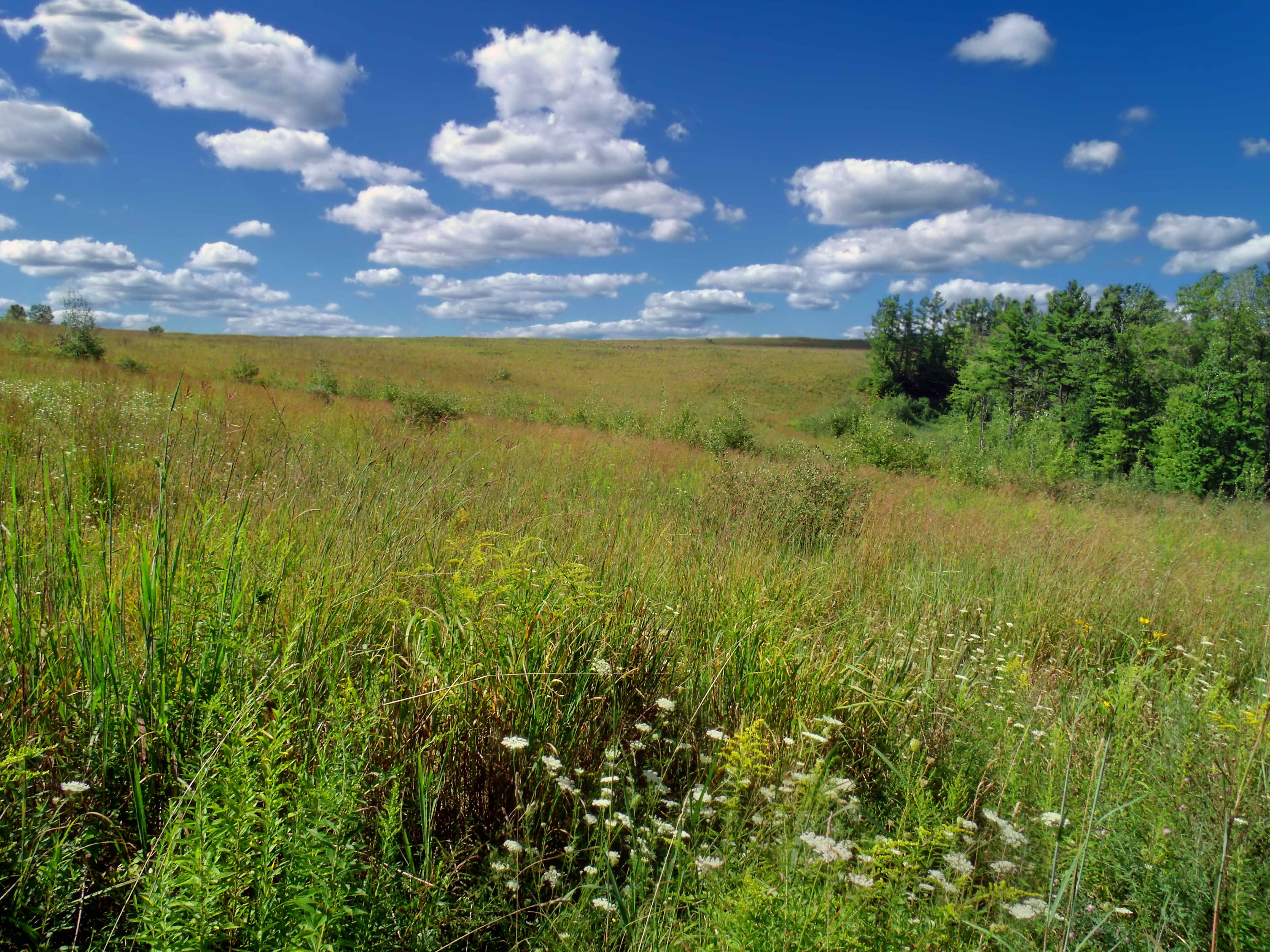 State Game Land 100, Centre County. Extensive grasslands, with abundant wildflowers, cover a landscape that was once the site of strip mining.